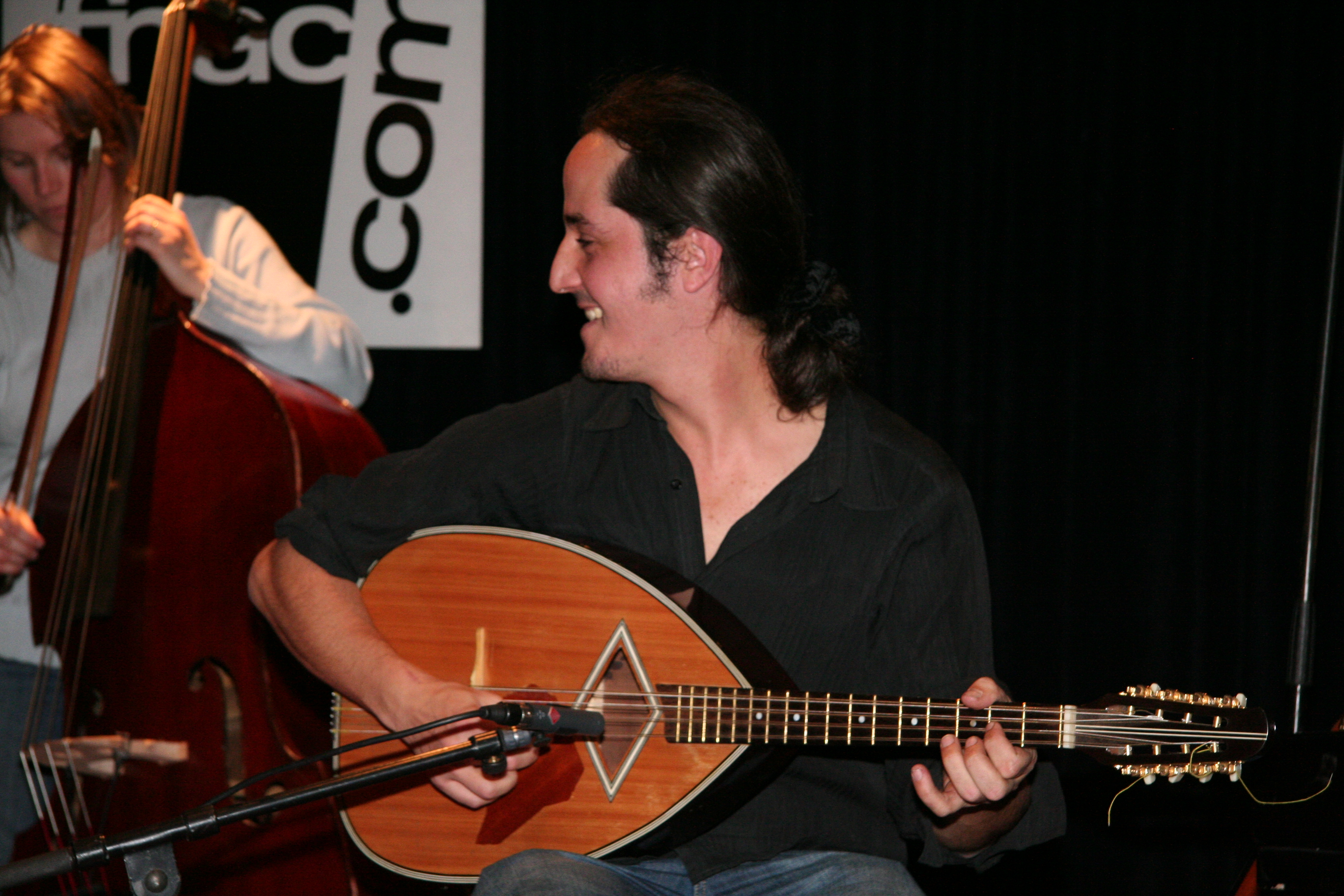 Show-case with Mon côté punk at Fnac des Ternes (Paris, France).